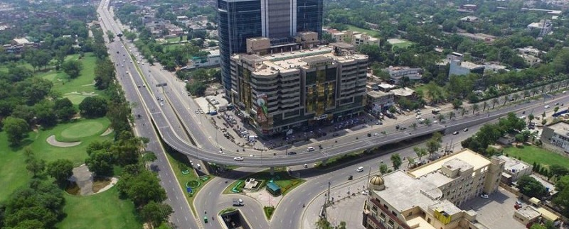 Lahore Pakistan